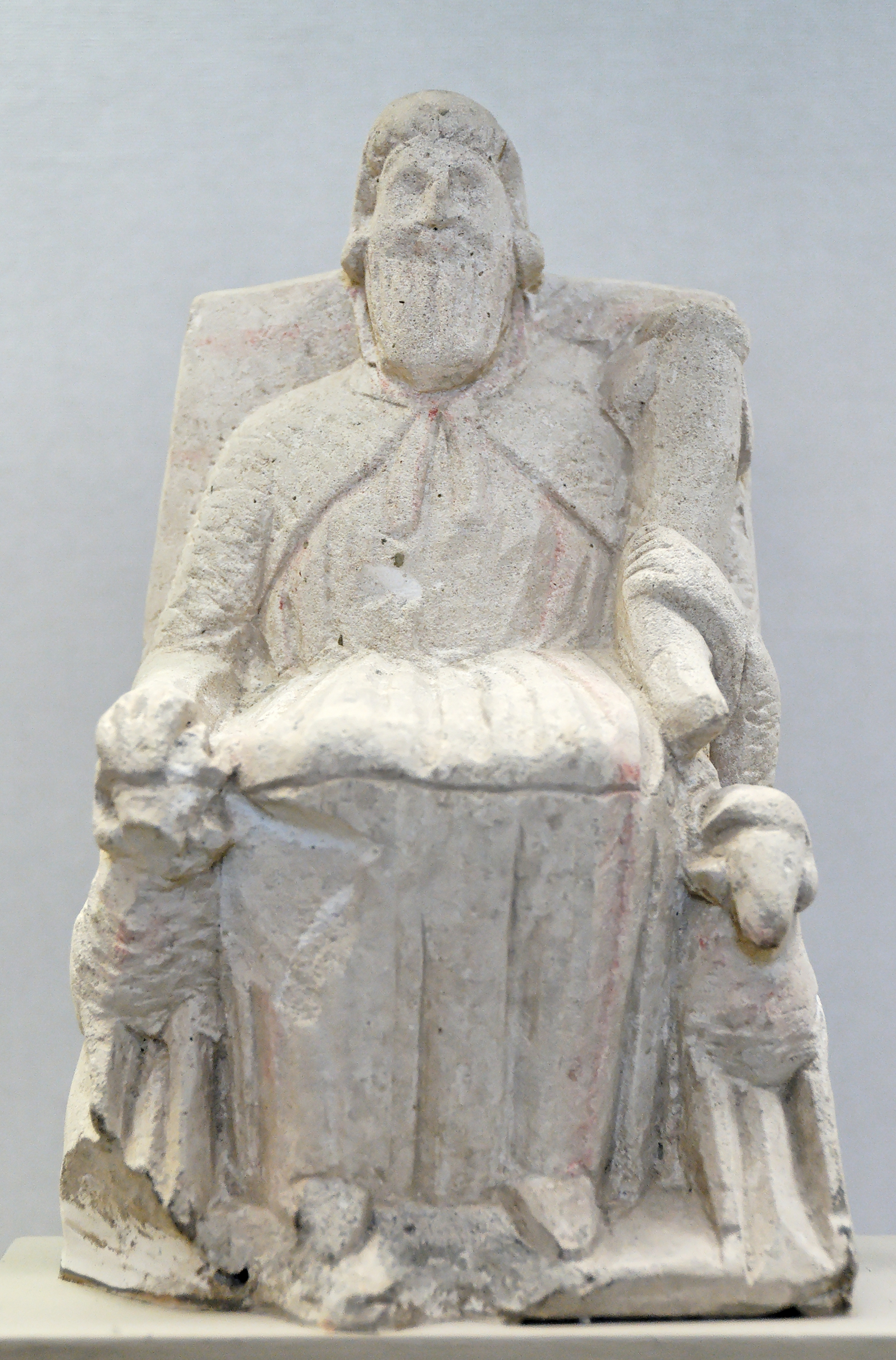 Zeus Ammon seated on a throne flanked by rams. Limestone, Hellenistic Era (early 3rd century BC). From Cyprus.